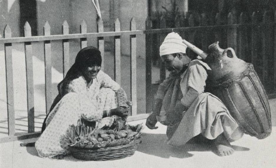 FRUIT-SELLER AT A RAILWAY STATION. A man and a woman kneeling over a woven basket of fruit. The man has a jug of water on his back.